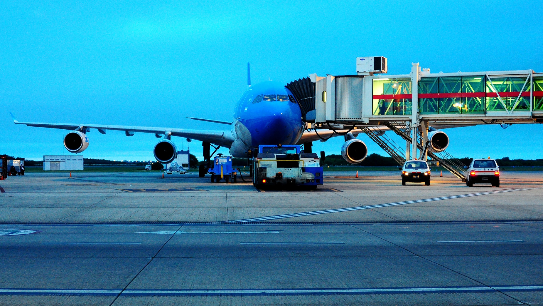 Airbus A340 of Aerolineas Argentinas in Ezeiza Airport, Buenos Aires, Argentina. February 2017.